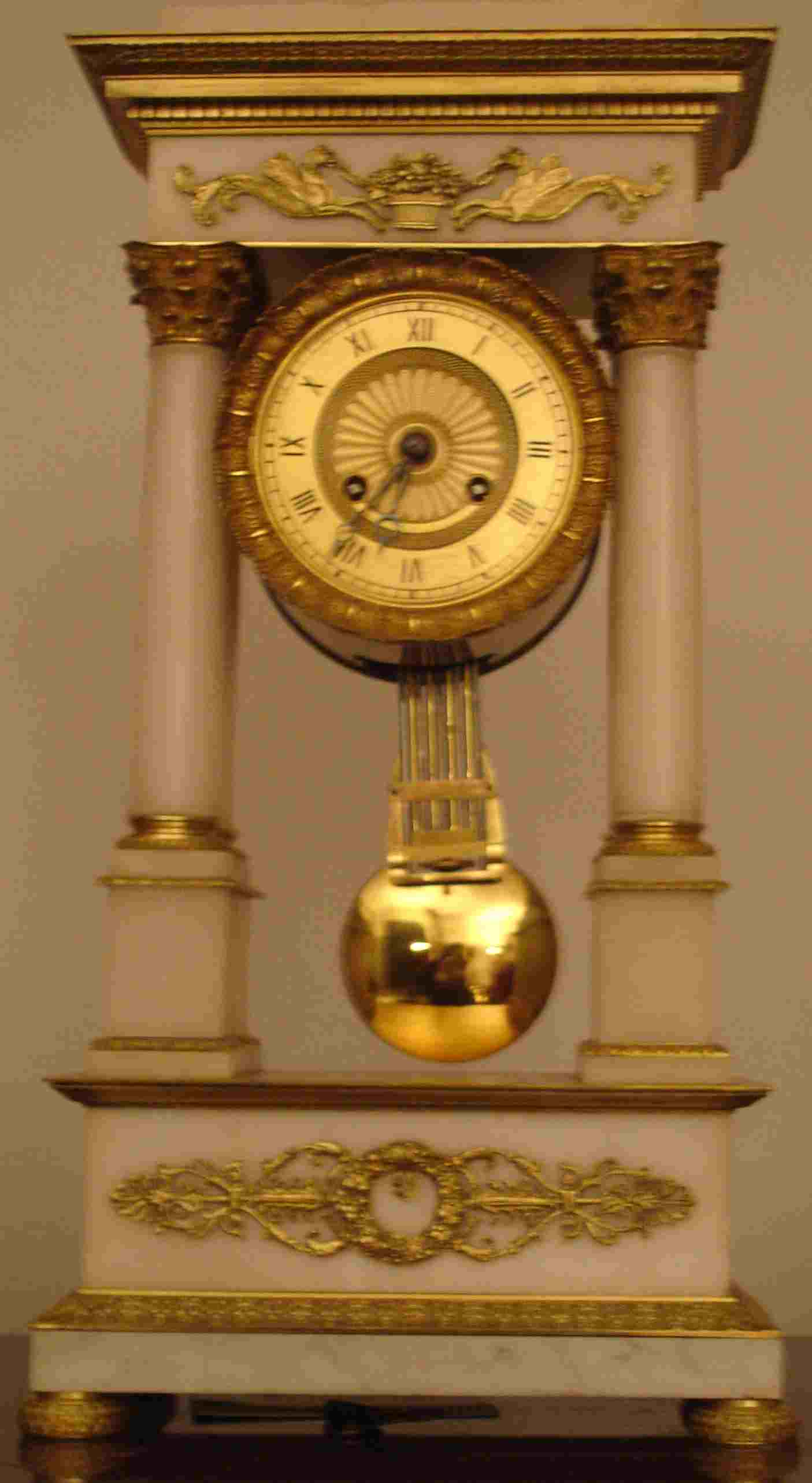 Clock with compensating pendulum